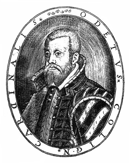 Porträt of Odet de Coligny, Cardinal and Archobishop of Toulouse